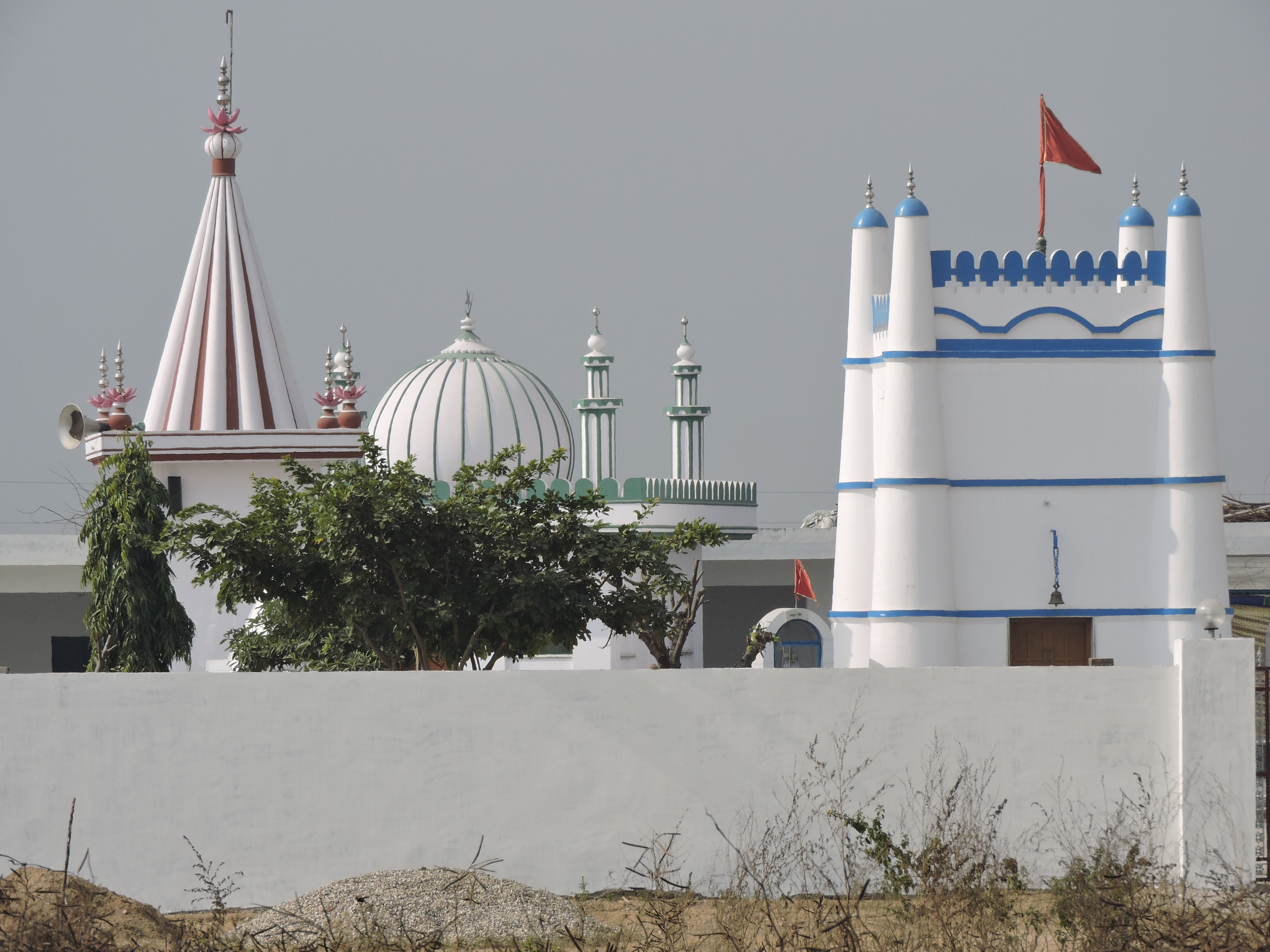 common worship shrines of Hindu and Muslims , Village Tadauli , SAS Nagar , (Mohali) Punjab, India